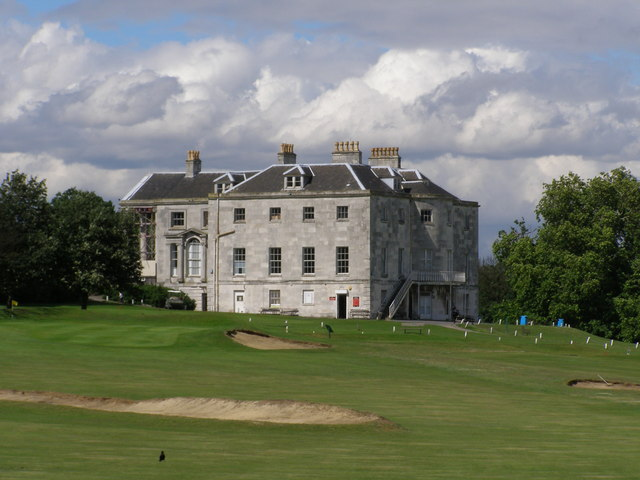 Beckenham Place The original house, focal point of Beckenham Place Park, now used as a golf centre.